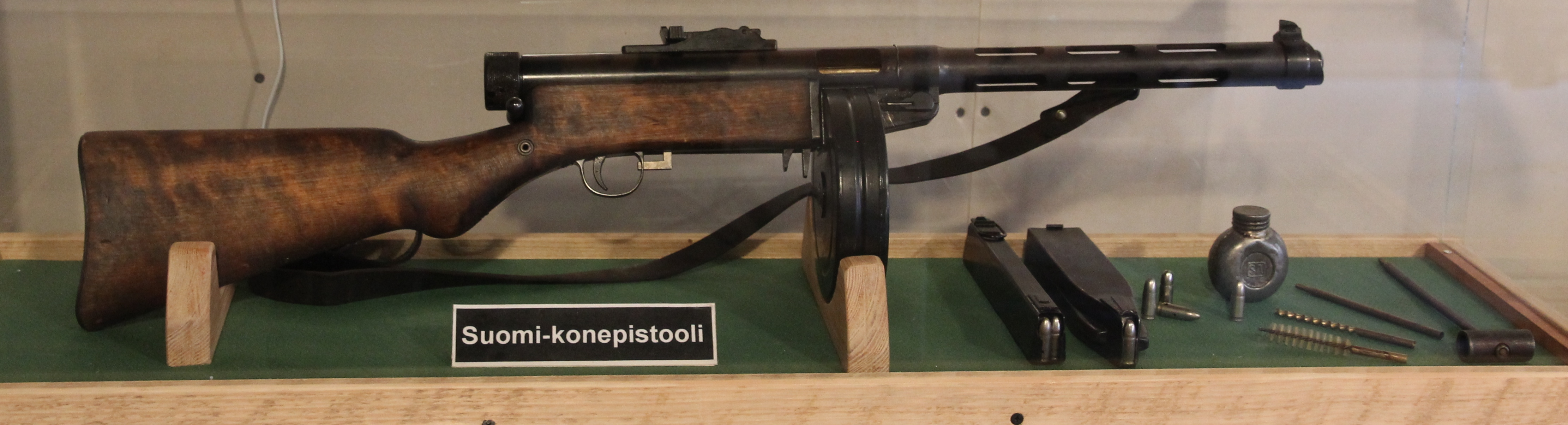 Suomi M31 submachine gun in the Cannons of Torp museum. 70 round drum magazine attached, 20 and 50 round box magazines with cleaning kit on display.